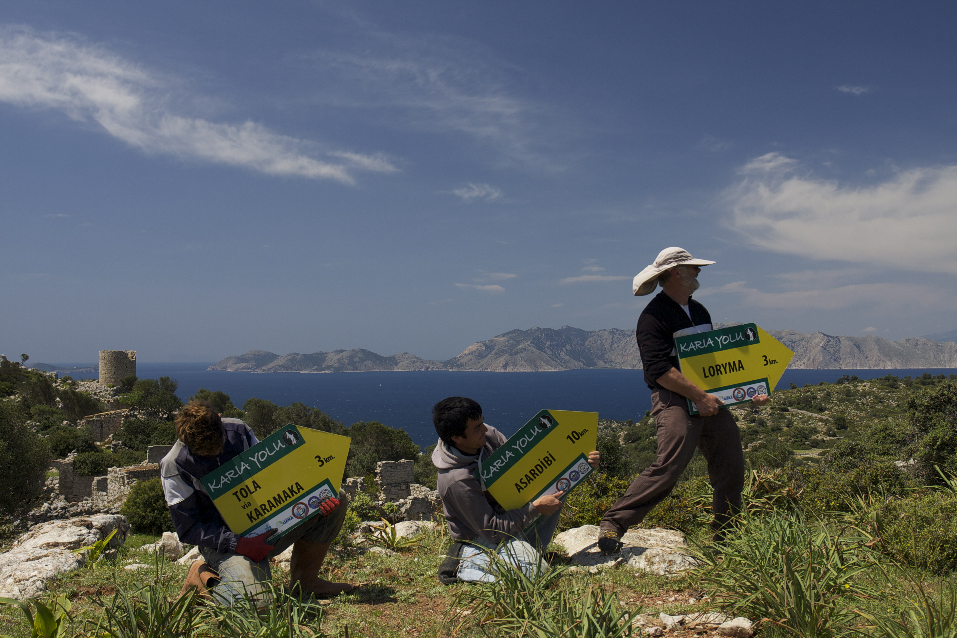 Putting signposts on Carian Trail, at the tip of the Bozburun Peninsula. Behind are the ruins of Karamaka, and in the distance is the Symi Island.